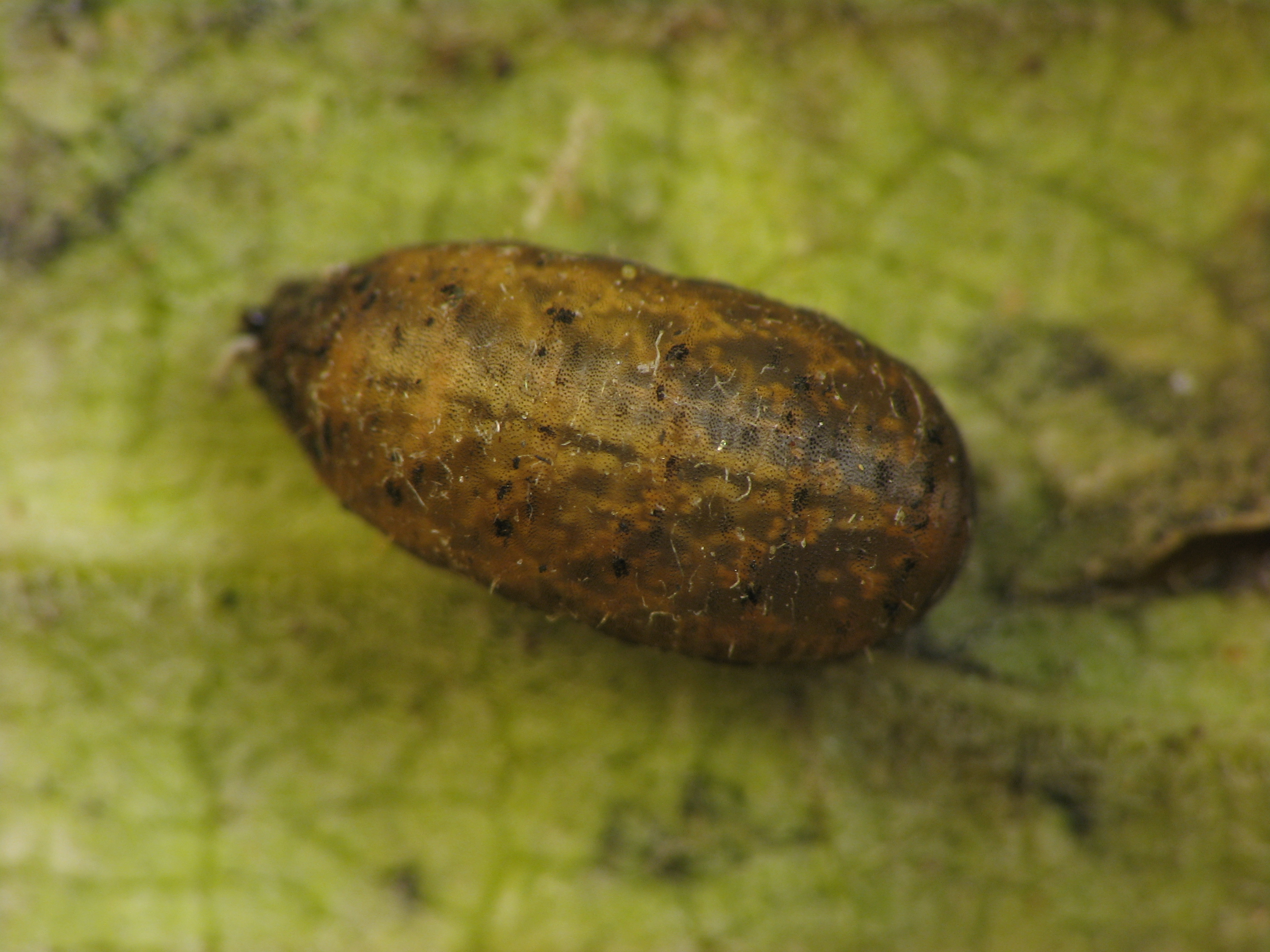 Puparium of American hover fly, Eupeodes americanus, on milkweed. Schuylkill Nature Center, Philadelphia County, Pennsylvania, USA.